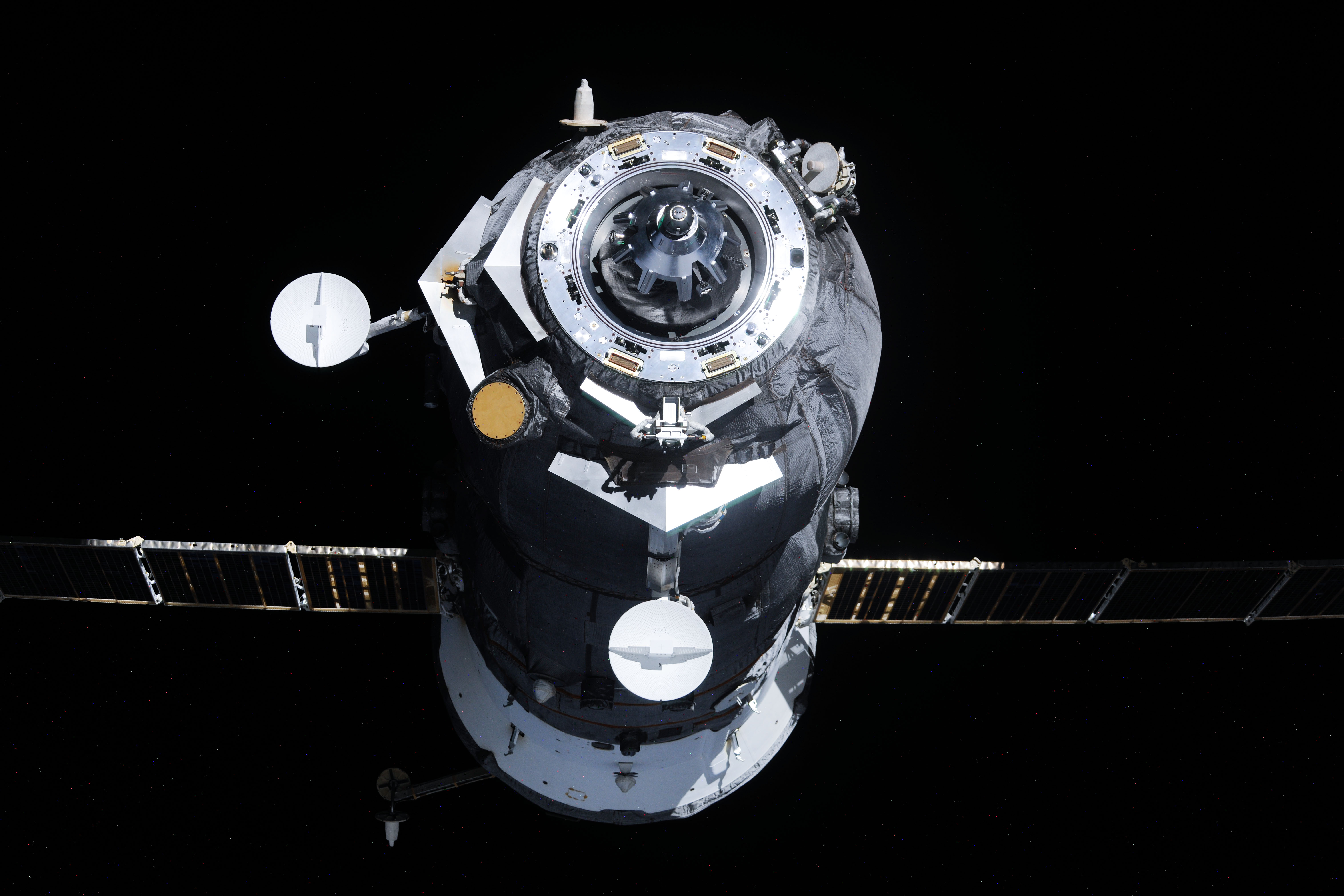 The unpiloted ISS Progress 42 supply vehicle departs from the International Space Station at 5:04 a.m. (EDT) on Oct. 29, 2011. Filled with trash and discarded items, Progress 42 was deorbited at 8:10 a.m., subsequently burning up in Earth's atmosphere. The departure of Progress 42 clears the way for the next unpiloted supply ship, Progress 45, which is set to launch Oct. 30 from the Baikonur Cosmodrome in Kazakhstan bringing 2.9 tons of food, fuel and supplies for the residents of the space station.